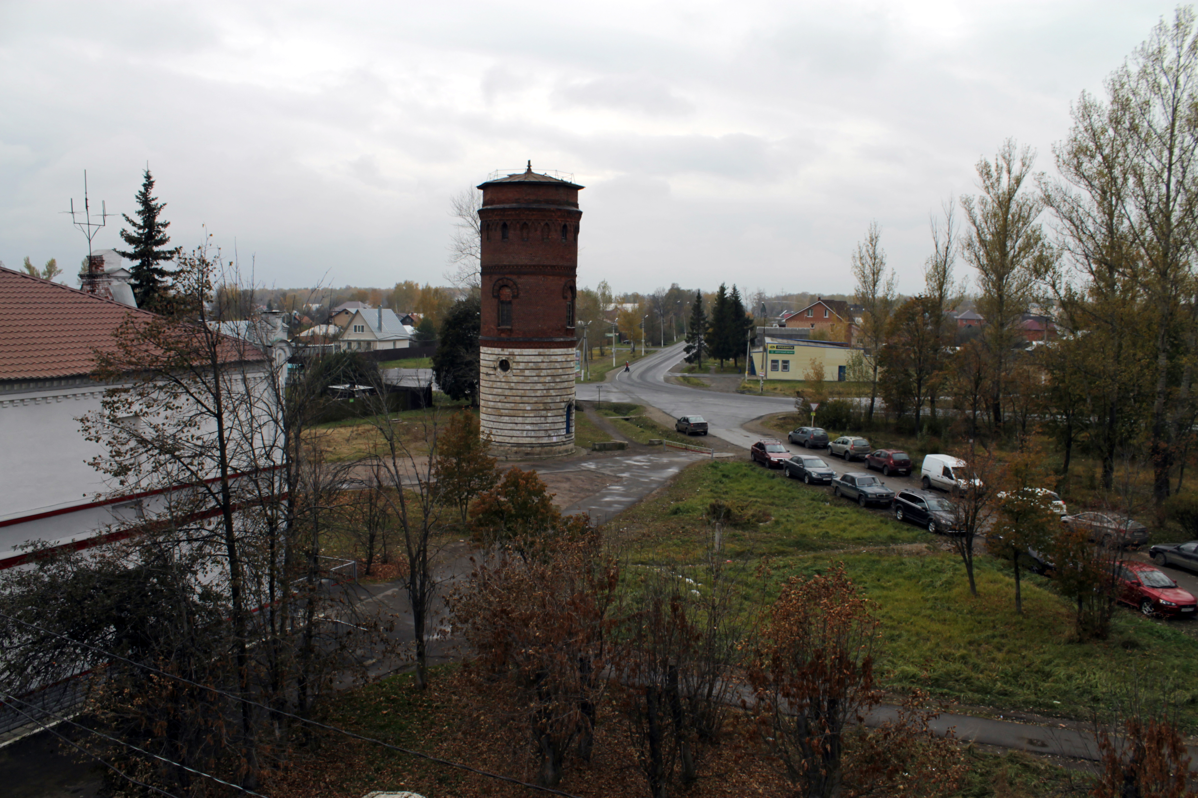 view from railway bridge at zhilevo